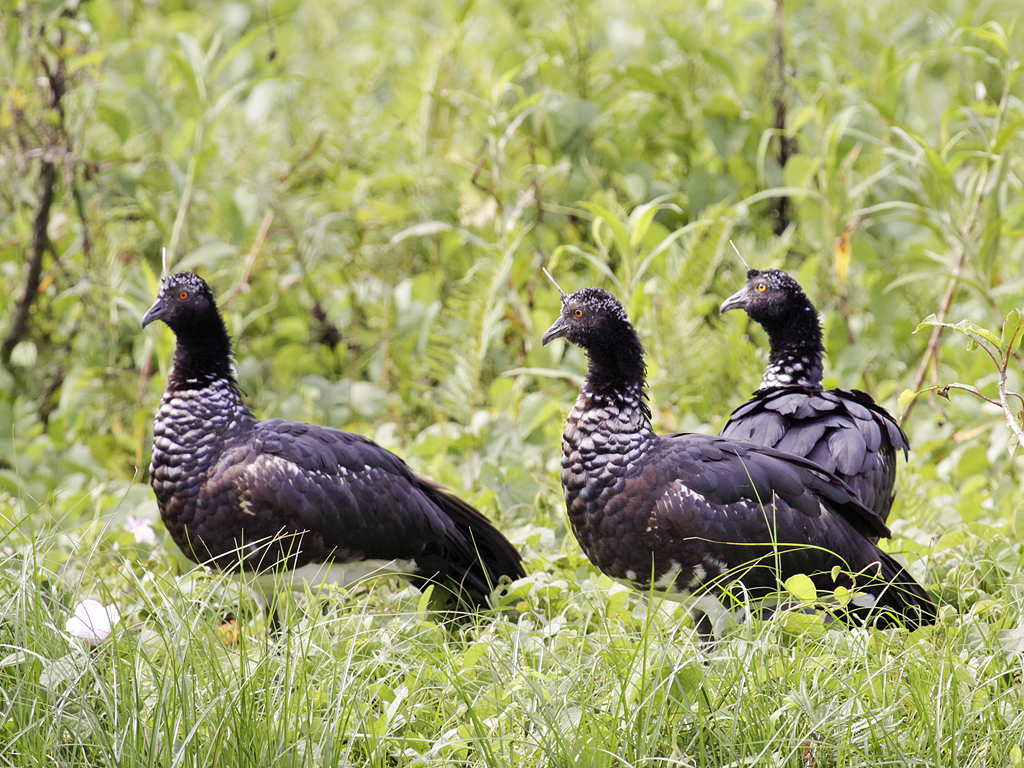 Three Horned Screamers near Manu Wildlife Center, Manu National Park, Peru.